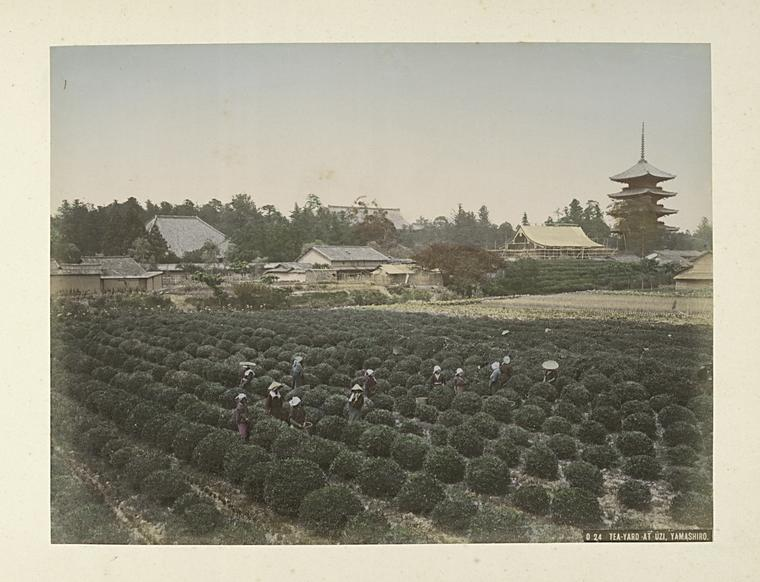 Digital ID: 110002. 189-? Source: [Album of photographs of Japan.] ( Repository: The New York Public Library. Photography Collection, Miriam and Ira D. Wallach Division of Art, Prints and Photographs. See more information about and others at Persistent URL: Rights Info: No known copyright restrictions; may be subject to third party rights (for more information